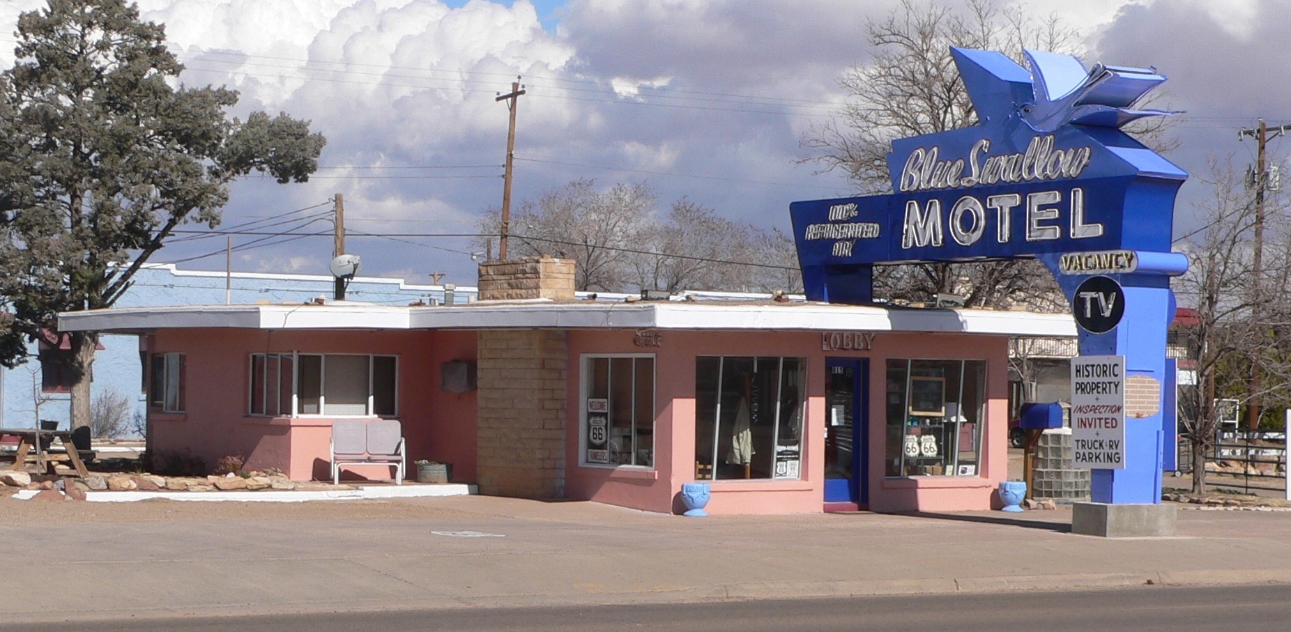 Blue Swallow Motel, located at 815 E. Tucumcari Boulevard in Tucumcari, New Mexico: office building, seen from the southwest.